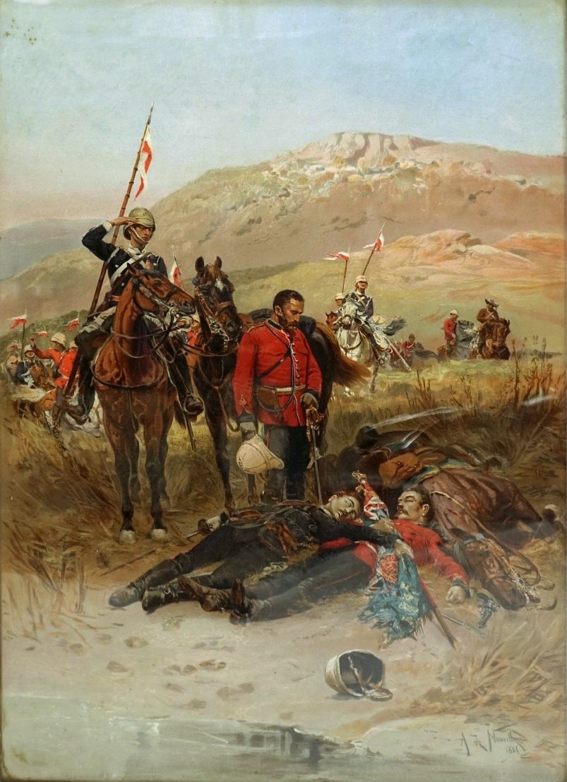 Prev - 1 of 1 results - Next » 'Last Sleep of the Brave', Isandlwana, Zulu War, 1879. Oleograph after Alphonse de Neuville, 1881. This work depicts a patrol from the 17th (Duke of Cambridge's Own) Lancers discovering the bodies of Lieutenant Teignmouth Melvill and Lieutenant Nevill Josiah Aylmer Coghill, 24th (2nd Warwickshire) Regiment of Foot, who were both killed attempting to save the Queen's Colour of the 1st Battalion at the Battle of Isandlwana on 22 January 1879. The depiction of the 17th Lancers is however anachronistic as when the bodies were retrieved the lancers had yet to leave England for South Africa. NAM Accession Number NAM. 1956-02-284-1 Copyright/Ownership National Army Museum, London Location National Army Museum, Study Collection Browse related themes Last Stands and Forlorn Hopes Death or Glory: 17th/21st Lancers